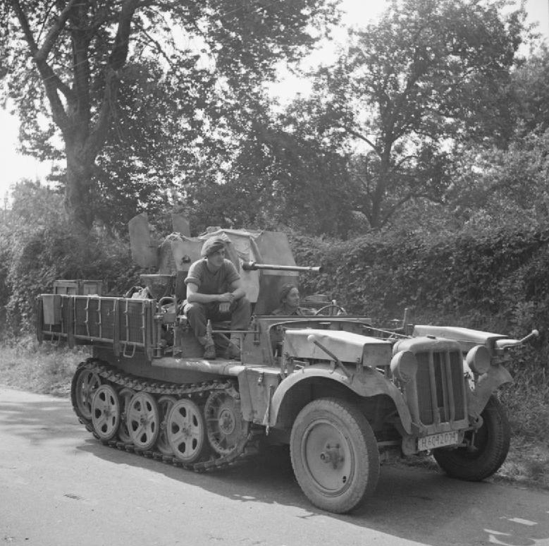 6th Airborne soldiers aboard a captured German half-track mounting a 20mm gun, which they used to shoot down a German aircraft, 28 August 1944.